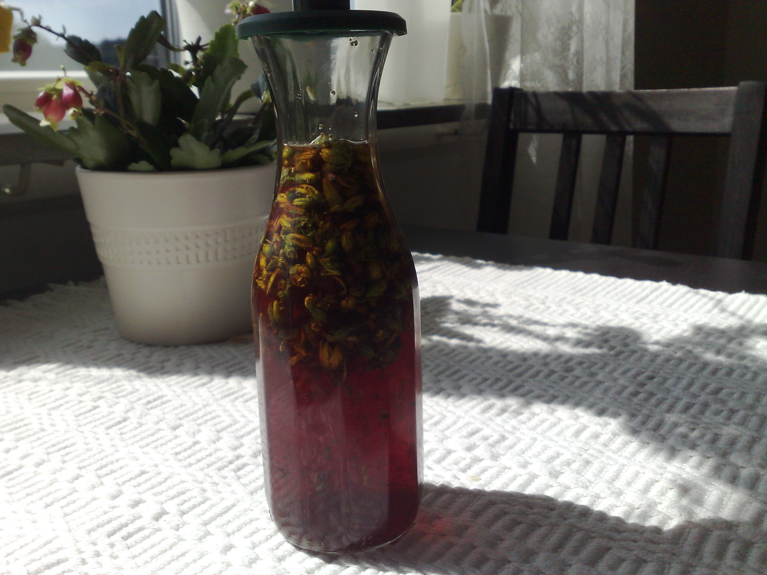 The liquor Hirkum Pirkum is made with crushed buds from the flower “St. John's wort” (Hypericum perforatum) that are soaked in eau de vie (brännvin) for a week.